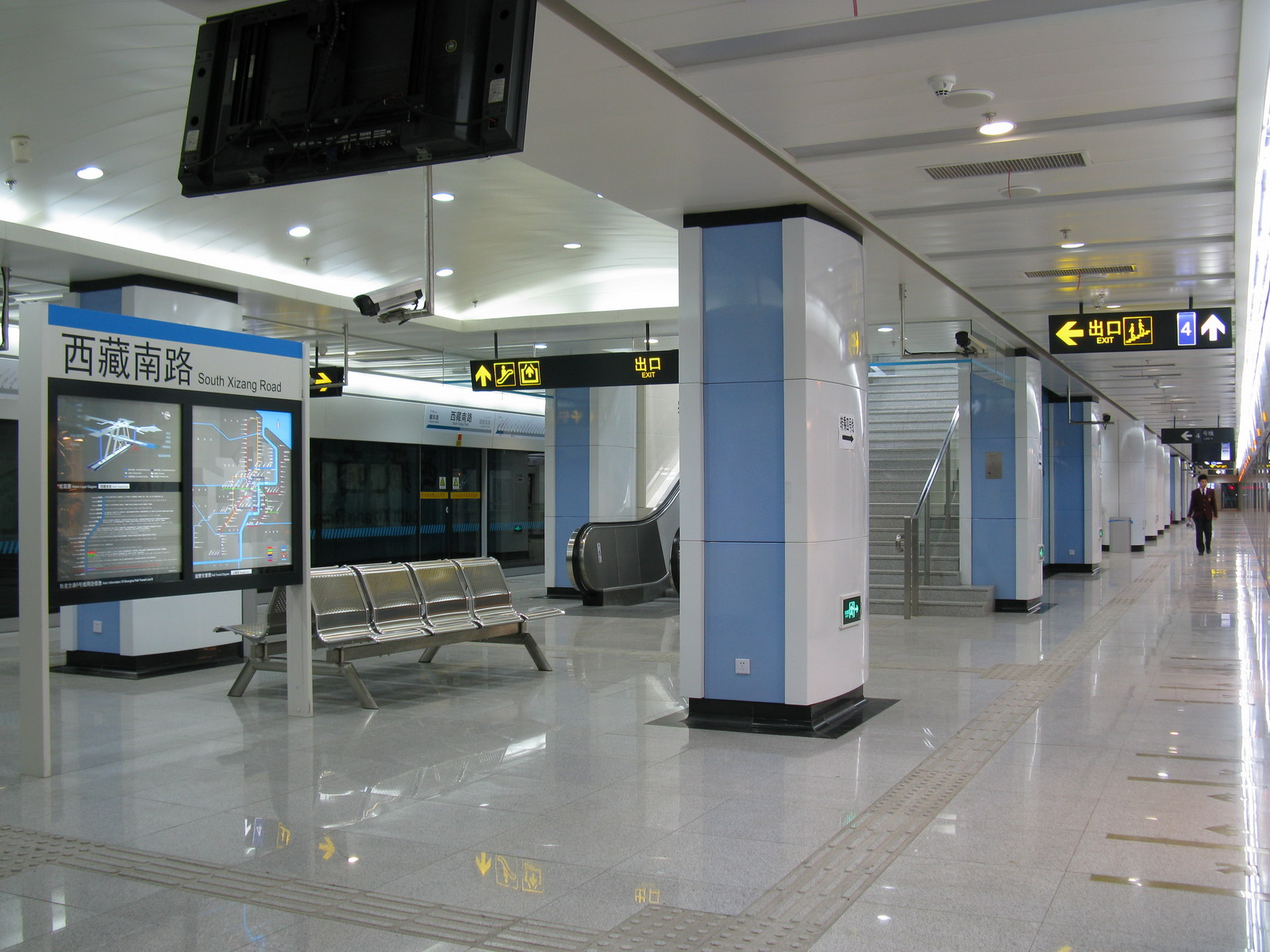 西藏南路站-8號線月台 Line 8 Platform of Xizang Road (S) Station